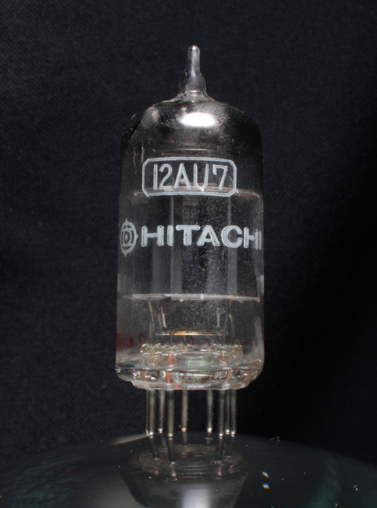 Hitachi 12AU7 vacuum tube